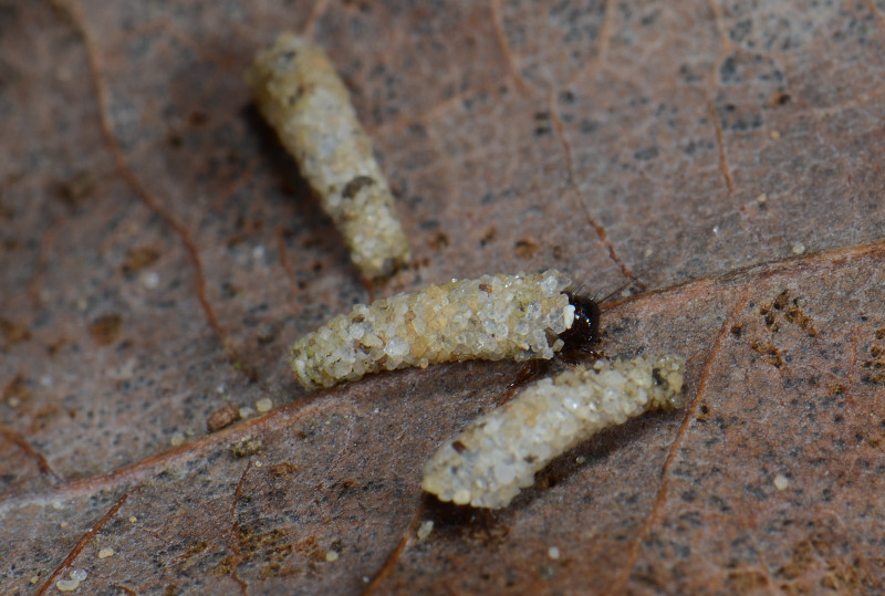 Enoicyla pusilla, larvae. Location: The Netherlands - Nationaal Park De Meinweg